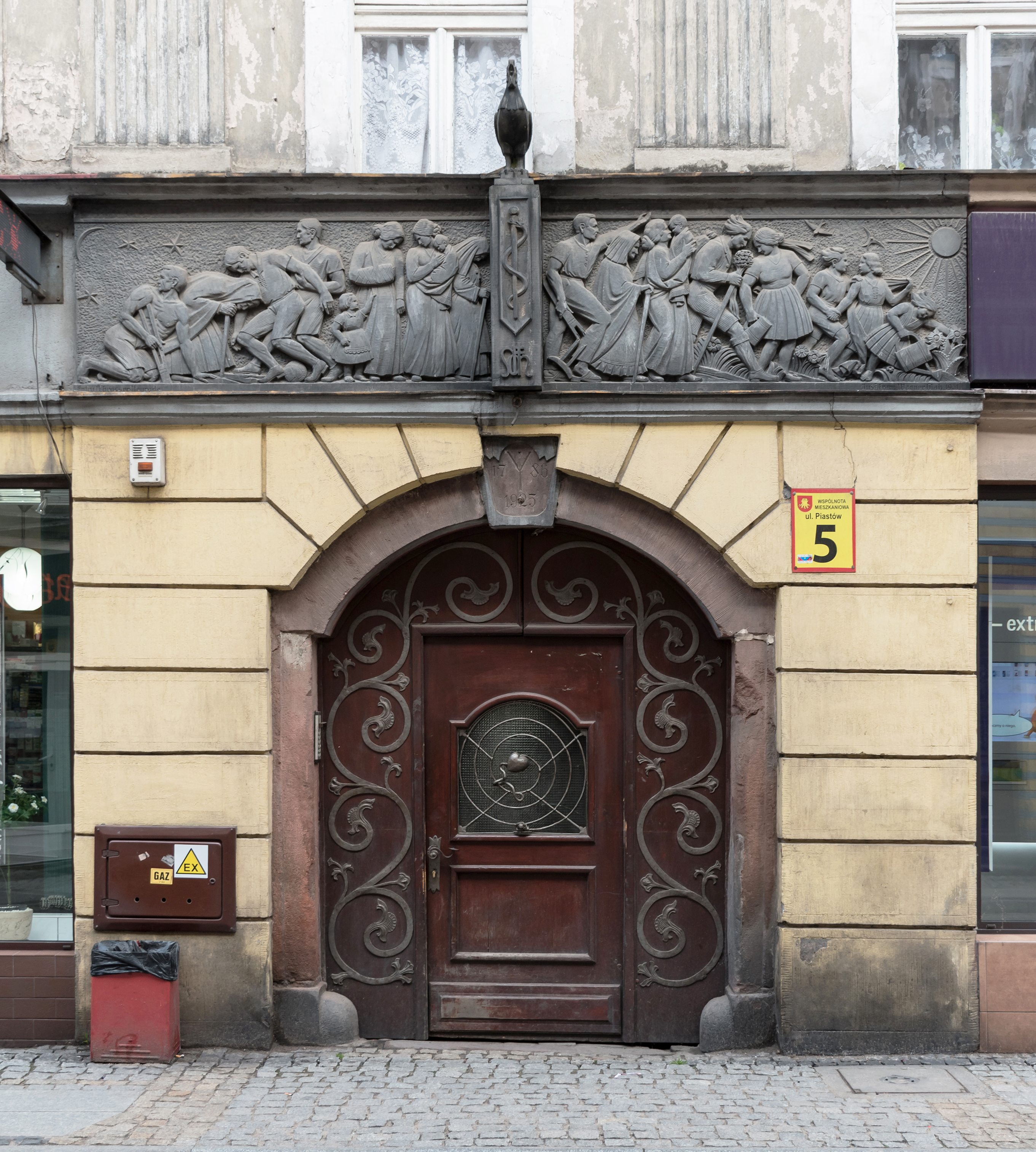 5 Piastów Street in Nowa Ruda